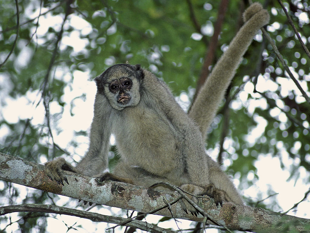 Original description: Muriqui, Brachyteles arachnoides From a slide scan. Caratinga biological station near Ipatinga, Brazil. July 93 However, B. arachnoides and B. hypoxanthus have disjoint ranges, and the location given is from the range of B. hypoxanthus, not the range of B. arachnoides The original Flickr photo has been modified as follows by WolfmanSF: color, brightness and contrast adjusted.